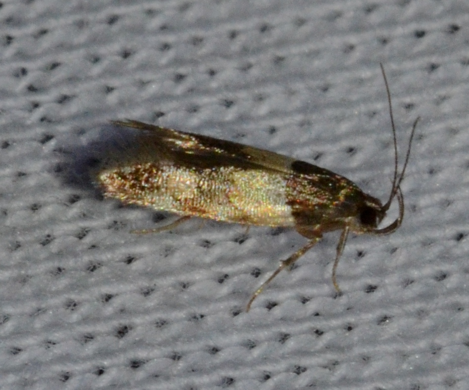 Mothing 7/6/14